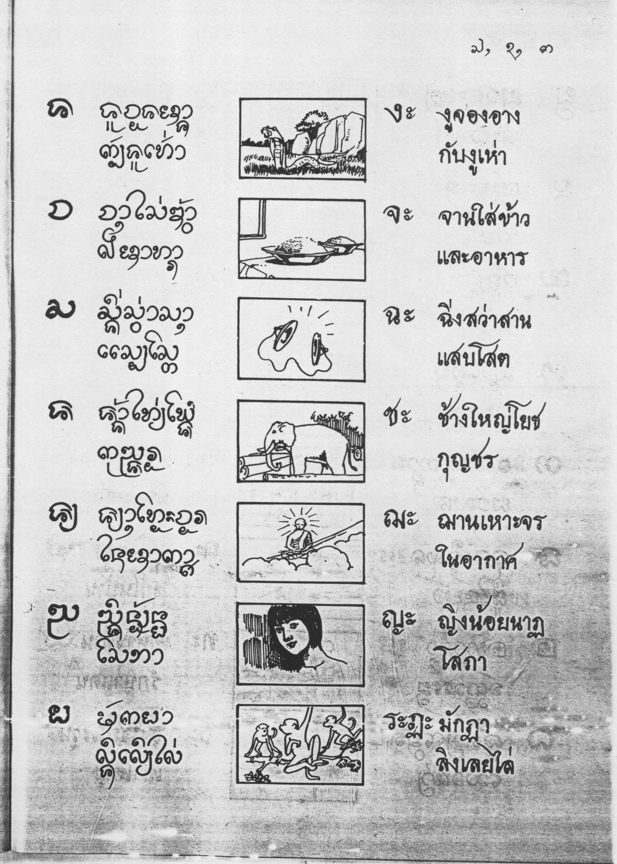 old handwritten Lanna Thai Language study book Author: S. Mani Piomiang, University of Chiang May Source: Chiang Saen Public Library Scanned into electronic form: d schwoerer